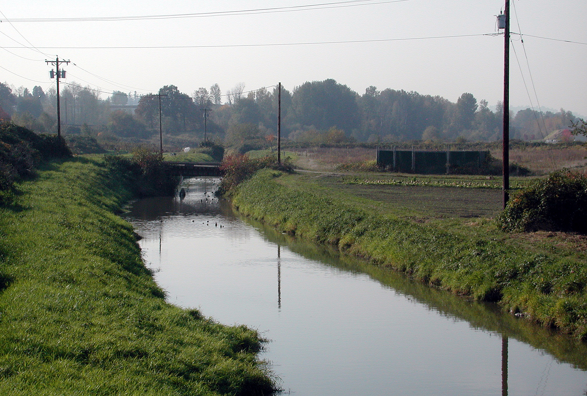 Columbia Slough just below its source at Fairview Lake. The view is downstream (west) from a bridge over the slough at the west end of the lake.